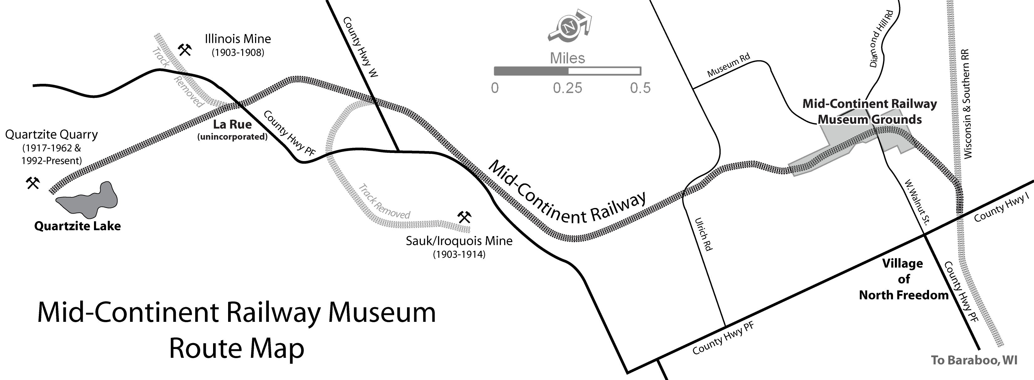 Route map of the Mid-Continent Railway Museum, located in North Freedom, Wisconsin. Map shows current and former rail lines and adjacent roads and other points of interest. This map appears in the fourth edition "Tour of the Yards" brochure distributed to Mid-Continent Railway Museum visitors.